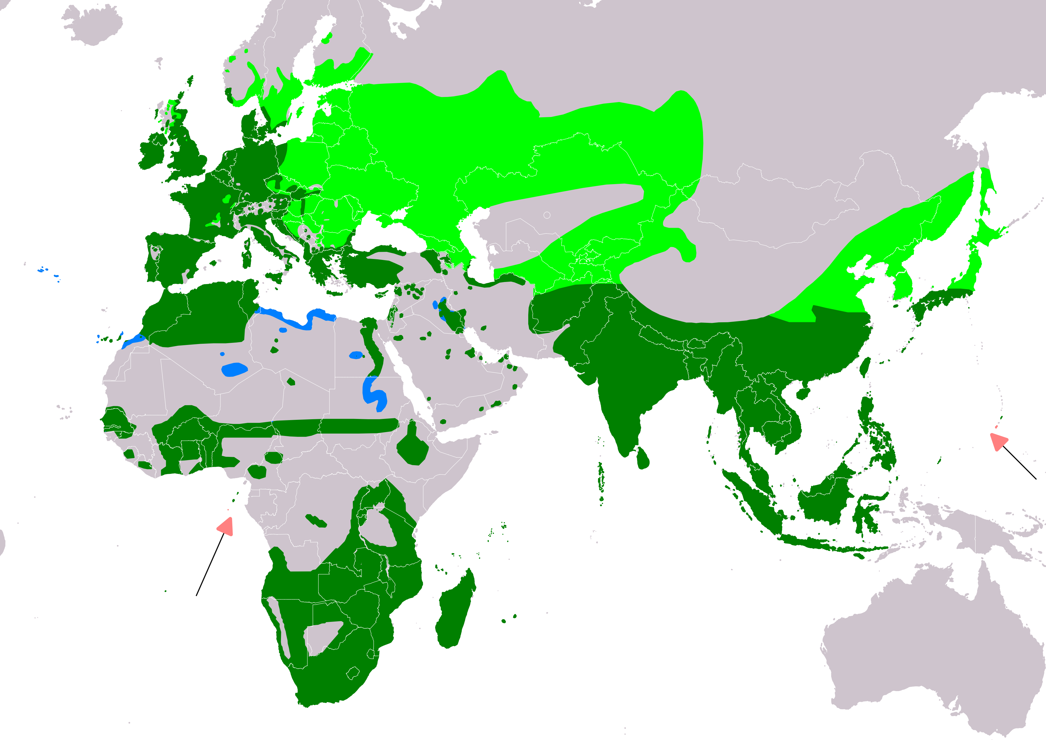 Distribution map of common moorhen (Gallinula chloropus) according to IUCN version 2019-2 ; key: Legend: Extant, breeding (#00FF00), Extant, resident (#008000), Extant, non-breeding (#007FFF), Probably extinct (#FF8080)